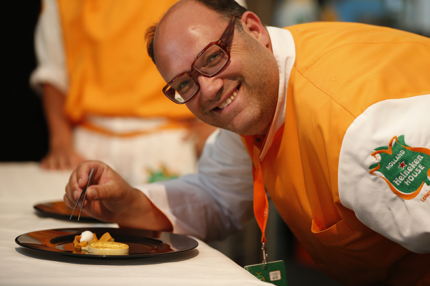 Moshik Roth cooks his Olympic medal dish